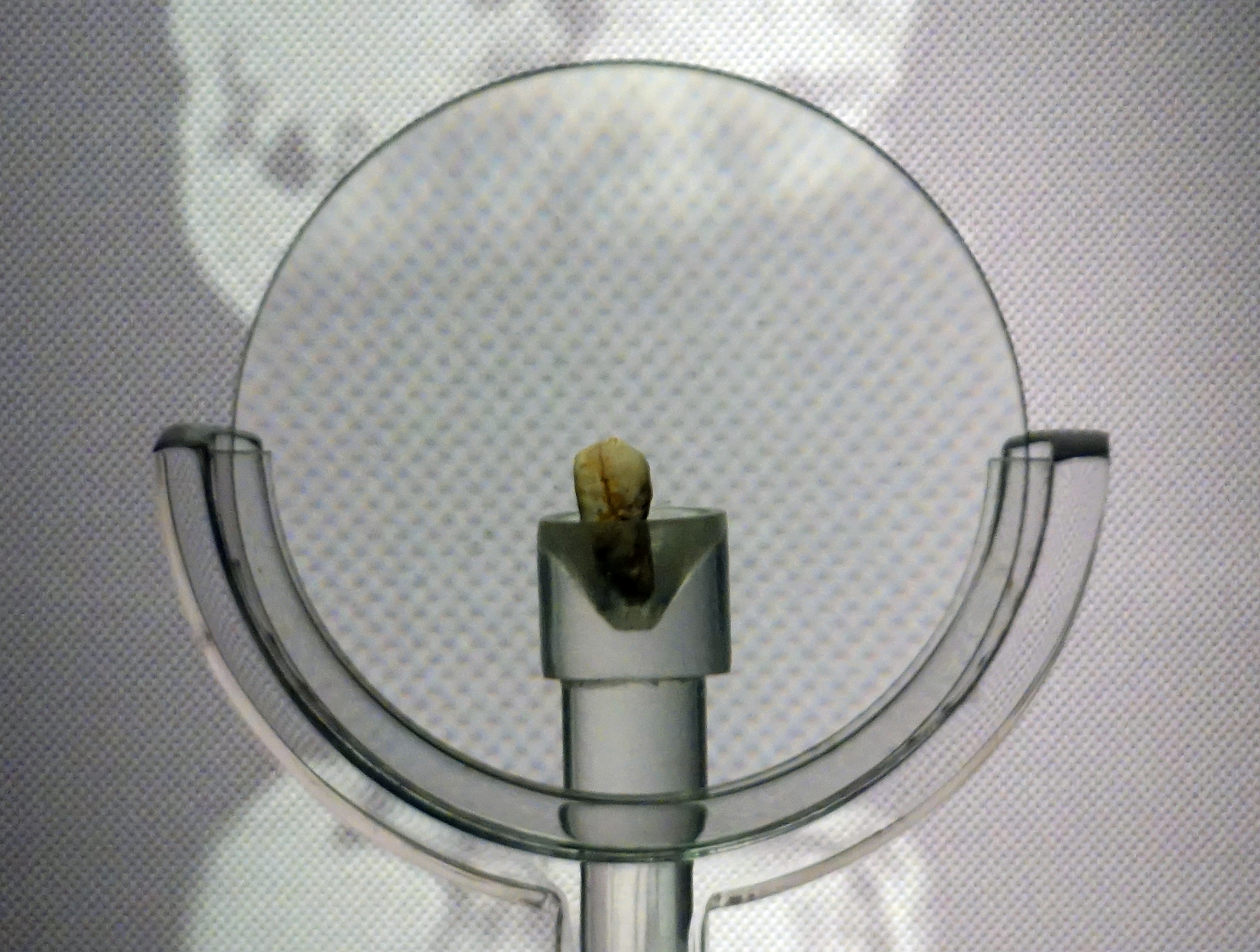 A tooth fossil of a human being who lived 50,000 year ago. Unearthed at Wuguidong site. Collected by Hangzhou museum.